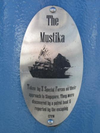 A comemorative plaque for the Z Special Unit at the new jetty at Rockingham, Western Australia.